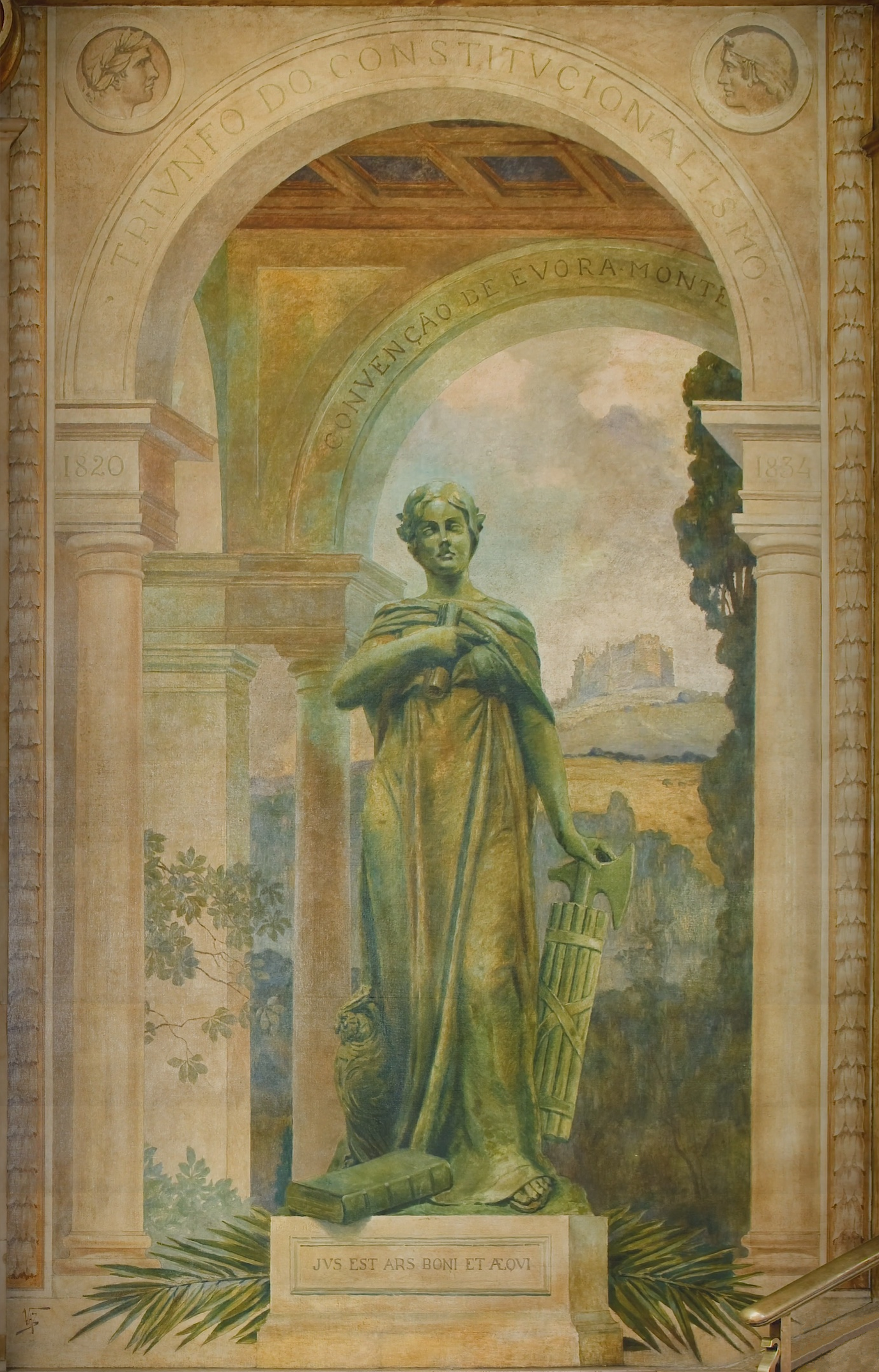 The Convention of Évora Monte, by João Vaz